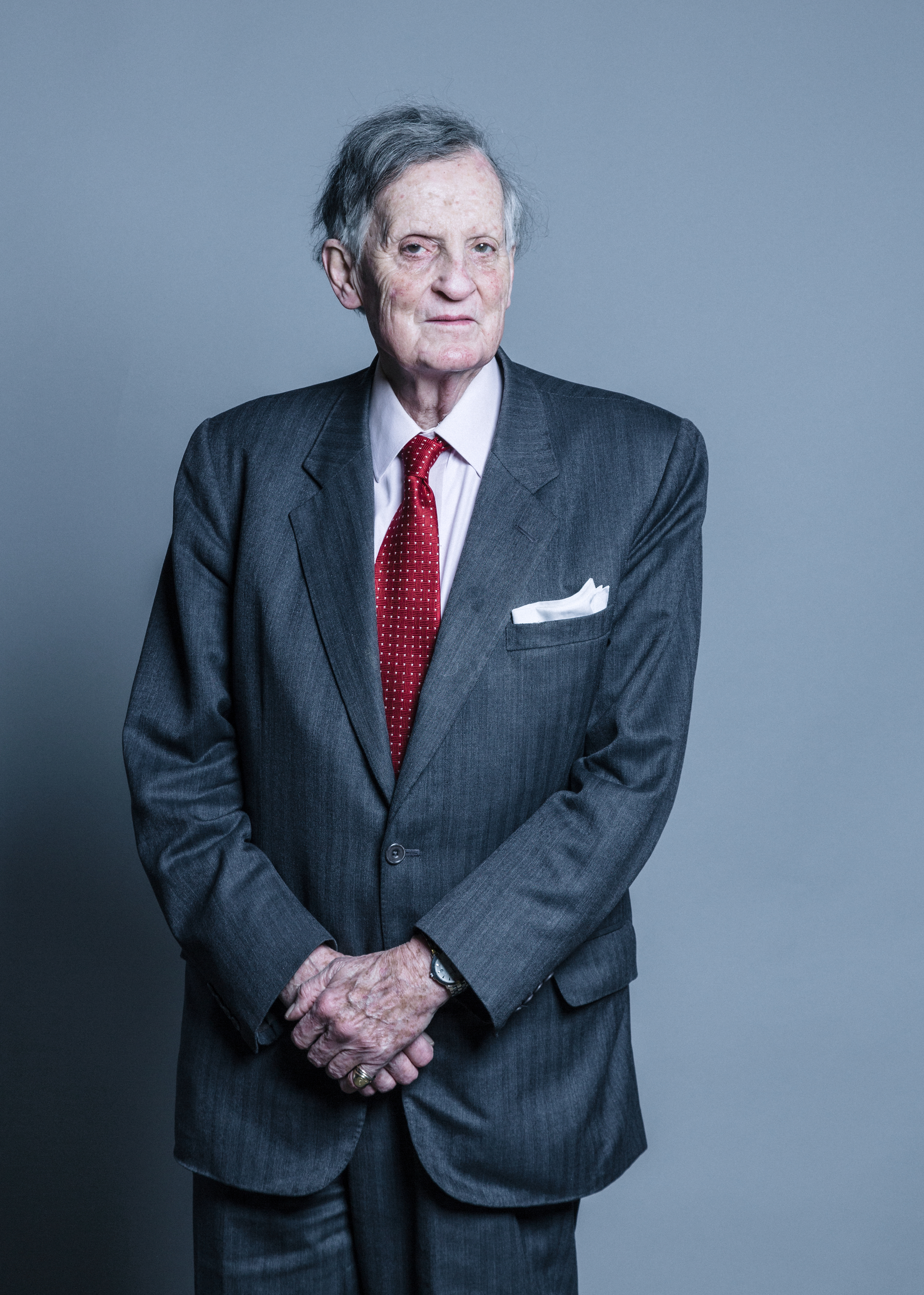 Official portrait of Lord Marlesford